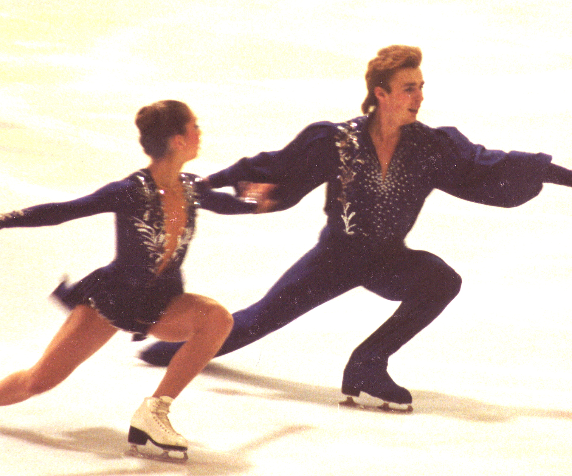 Maia Usova and Alexander Zhuling at the ISU-exhibition in West-Berlin in 1989